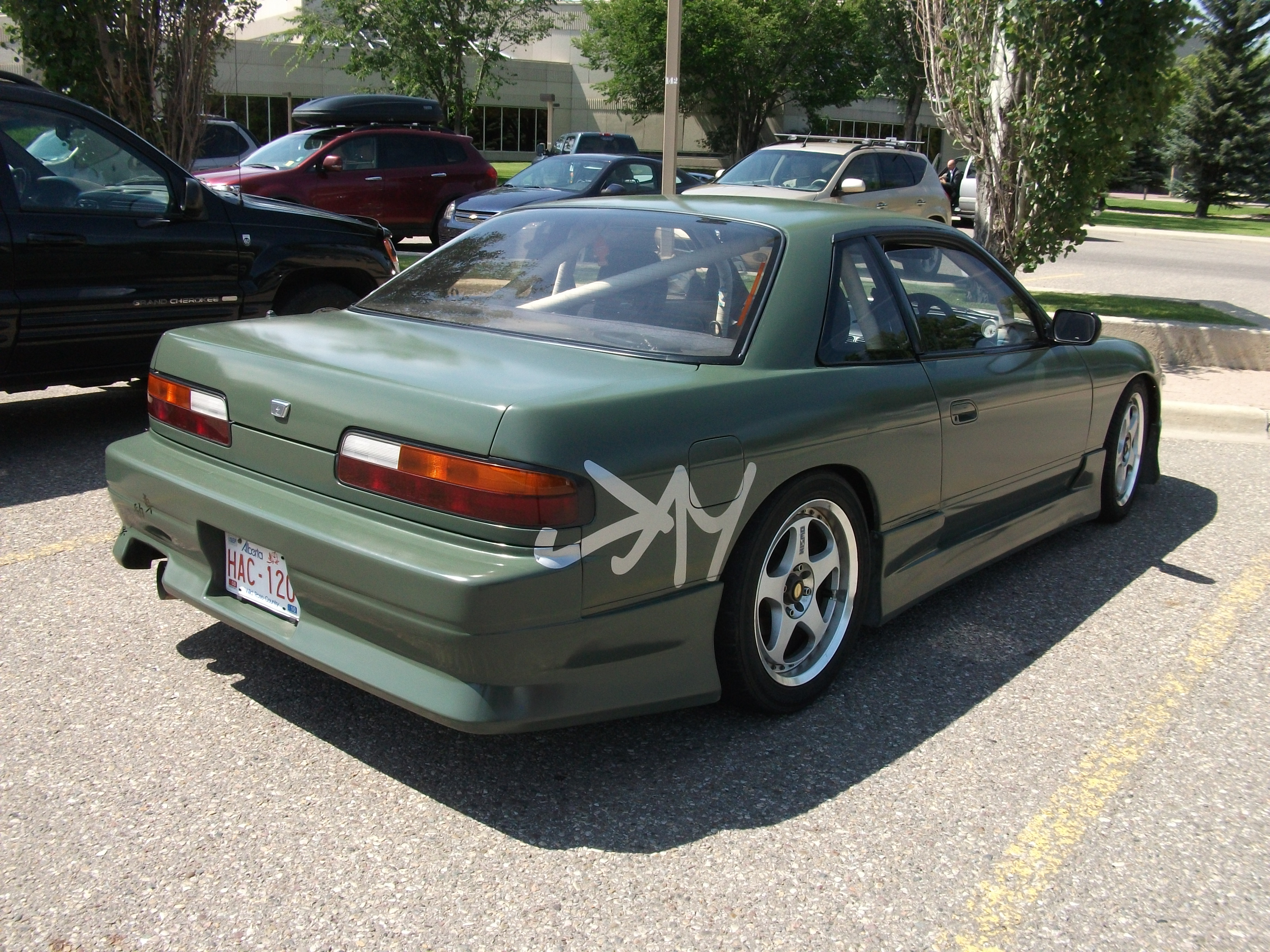 Eye catching Nissan Silvia imported from Japan.